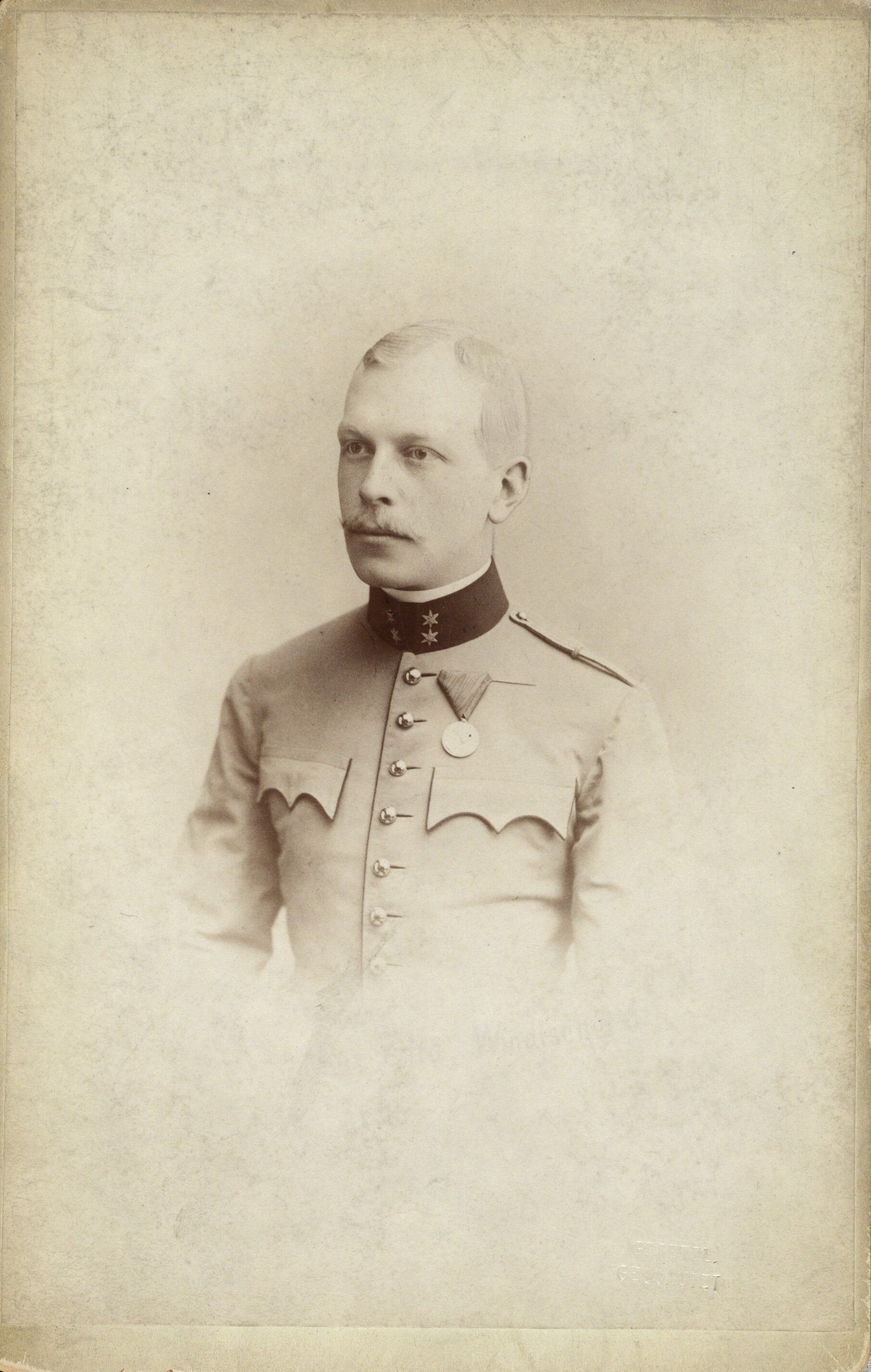 Otto zu Windisch-Graetz (1873-1952).